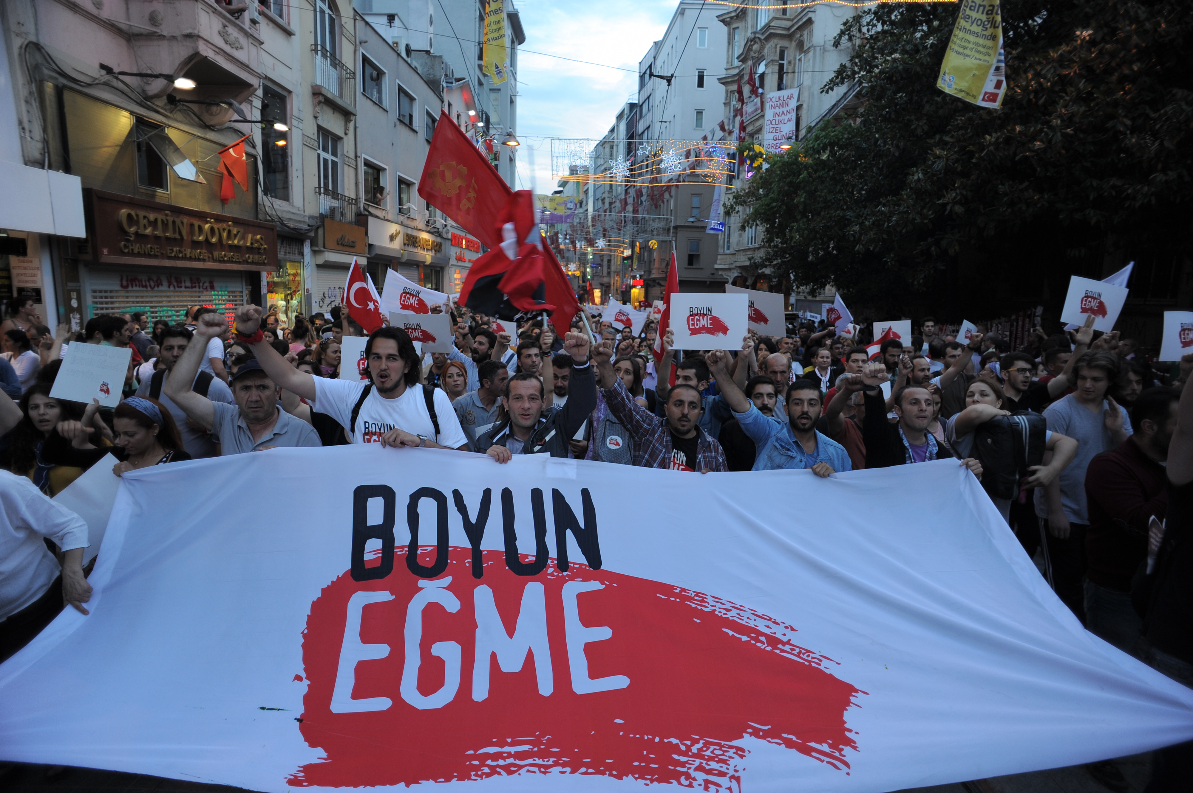 Each day protesters return to the square. Events of June 7, 2013.